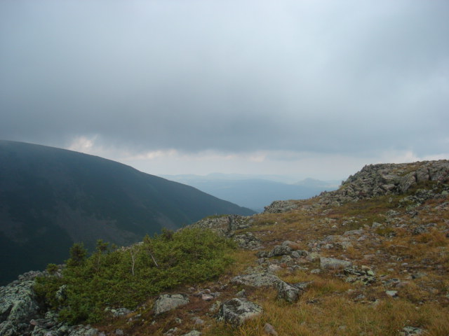 Panoramic view of Chic-Chocs mountains, Gaspesia, Quebec, seen from Mont Jacques-Cartier.